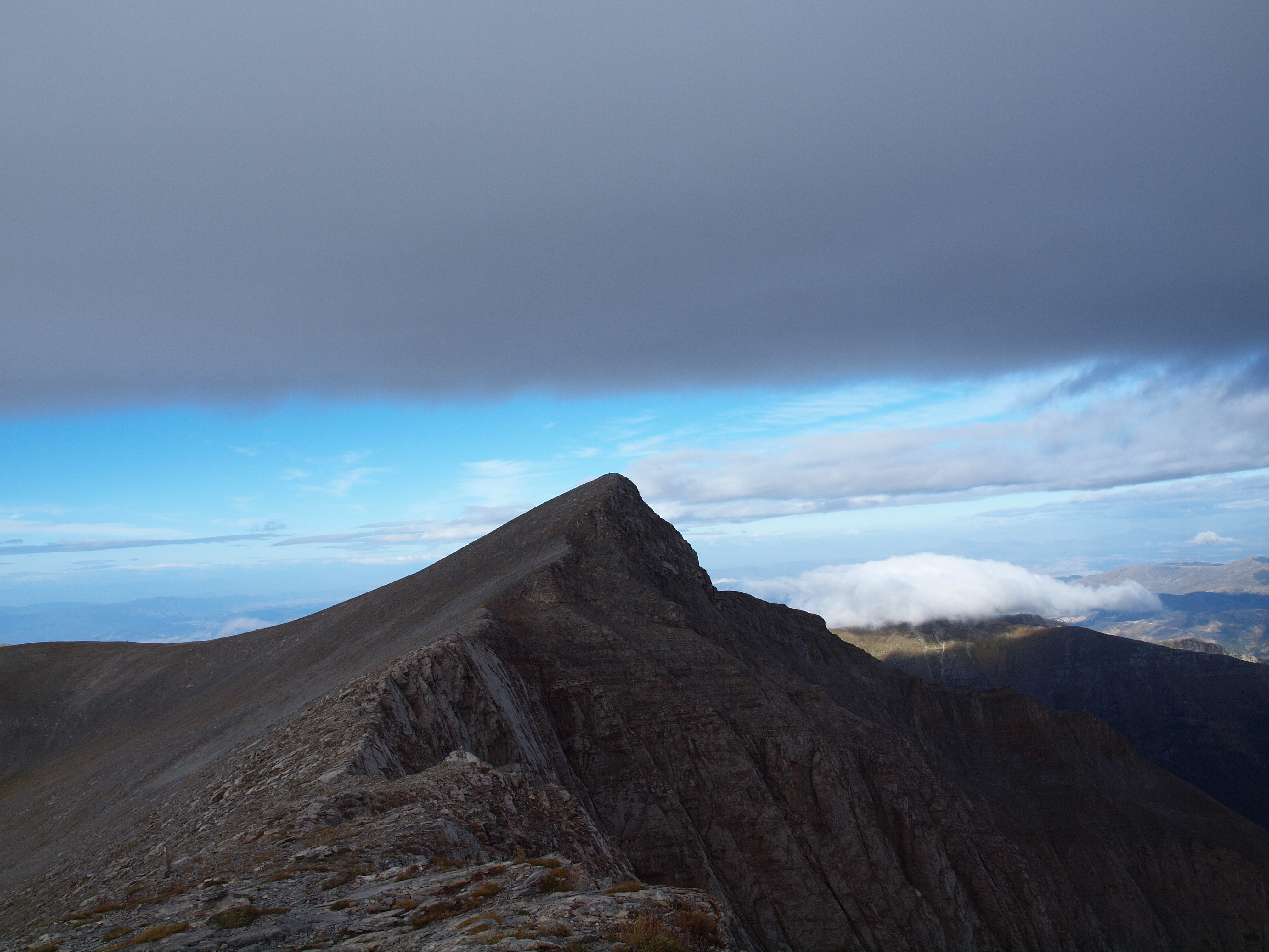 Skolio (2911 m) on Mount Olymp